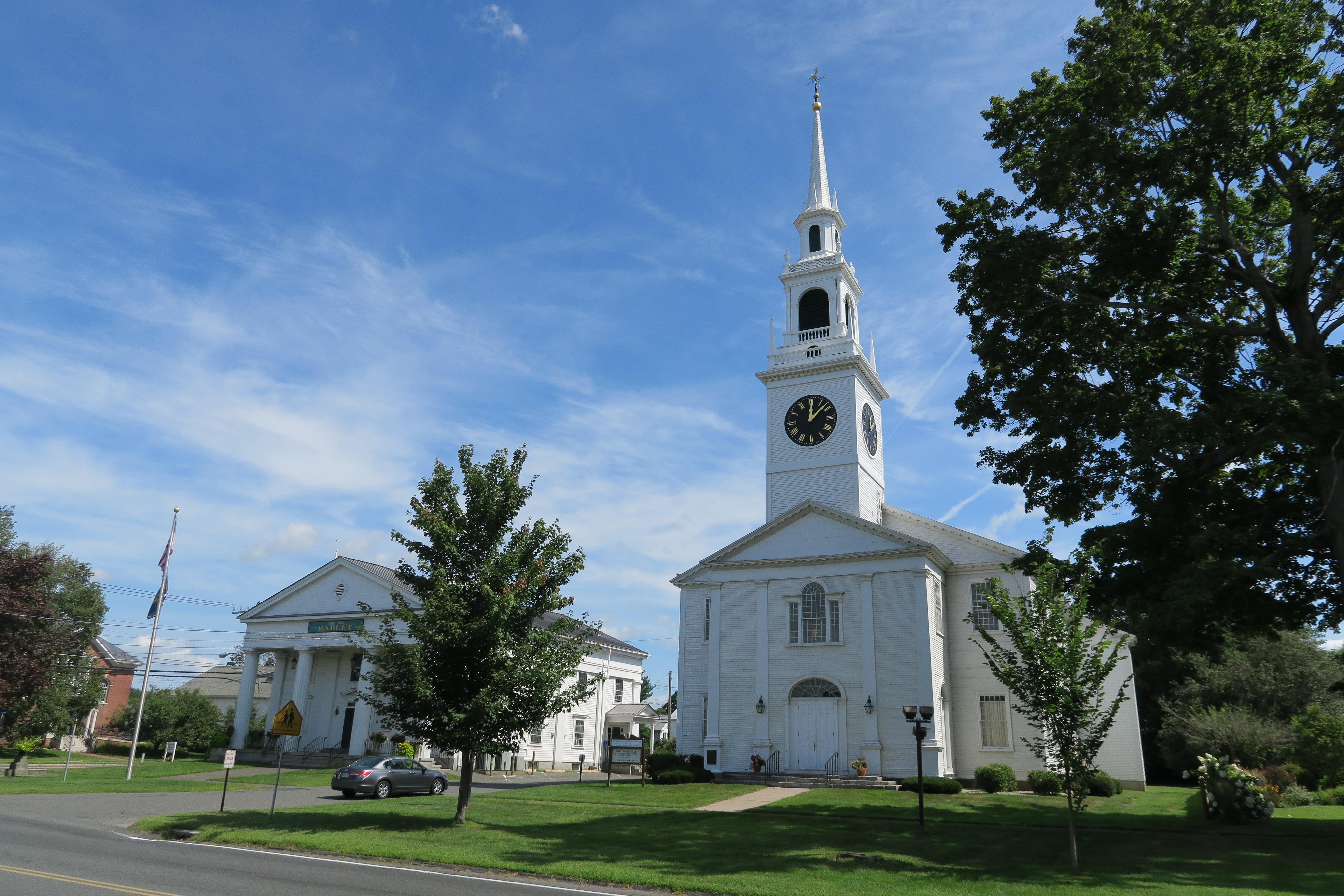 Town Hall and First Congregational Church, Hadley Massachusetts